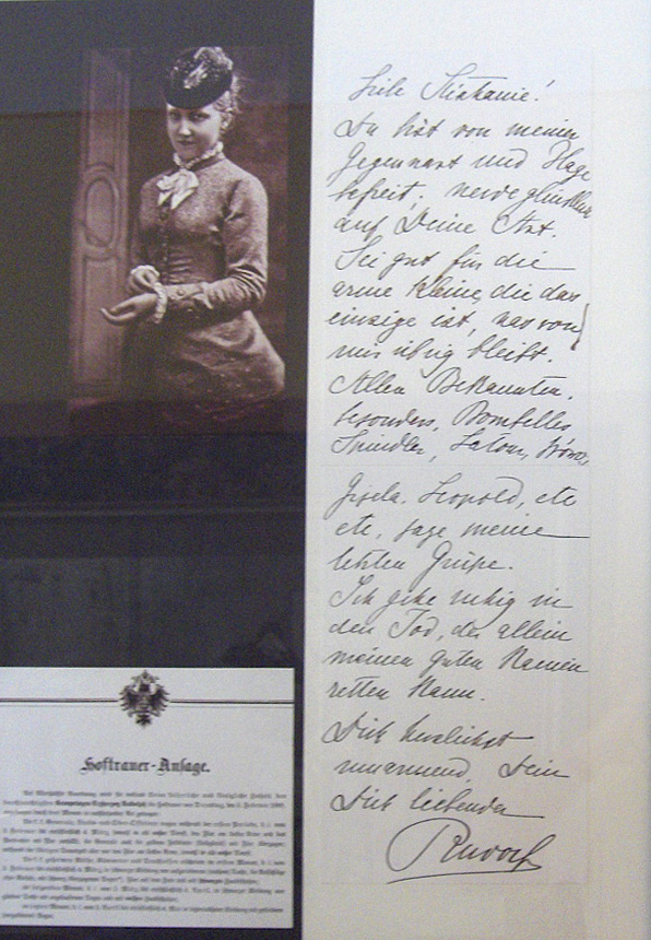 Final letter of Crown Prince Rudolph; photo of Princess Stephanie Warning: This photo shows Royal Princess Stephanie of Belgium, wife (widow) of Crown Prince Rudolf of Austria, and NOT the baroness Mary Vetsera. Dear Stephanie, you are now rid of my presence and annoyance; be happy in your own way. Take care of the poor wee one, she is all that remains of me. To all acquaintances, especially Bombelles [Count Karl Bombelles, head of his household], Spindler [Head Secretary Heinrich Ritter von Spindler], Latour [Count Josepf Latour von Thurmburg, Rudolf's childhood governor], Wowo [Rudolf's childhood nickname for his nurse, Baroness Von Welden], Gisela [his sister], Leopold [Gisela's husband], etc., etc., say my last greetings. I go quietly to my death, which alone can save my good name. I embrace you affectionately. Your loving Rudolf. The letter is undated.